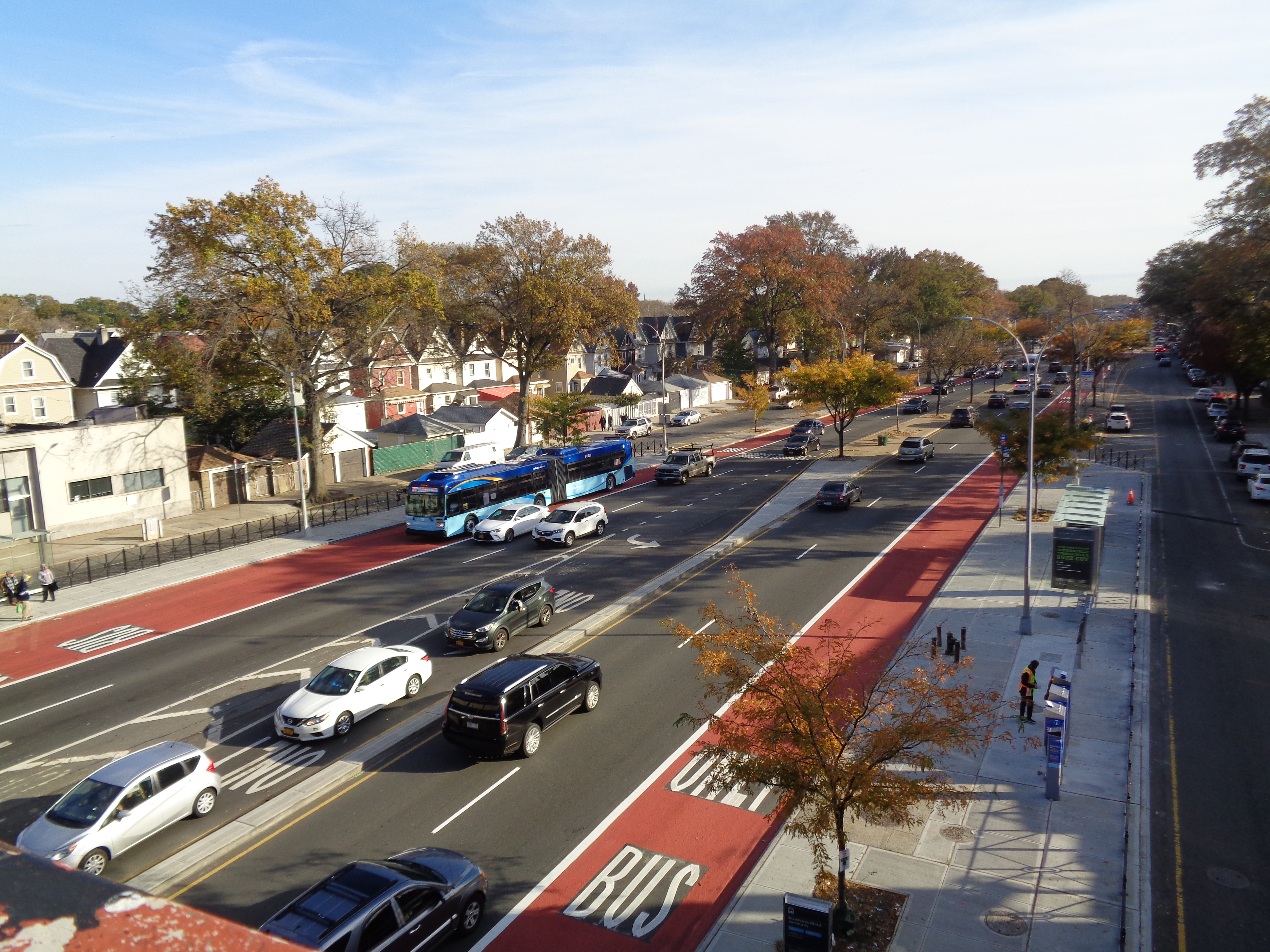 Looking south at Woodhaven Boulevard from the Woodhaven Boulevard BMT Jamaica Line station, above Jamaica Avenue in Woodhaven, Queens. Pictured are the new bus stops and bus lanes on the main road of Woodhaven for Select Bus Service. This is the first day of SBS service. A northbound Q52 SBS bus is at the center-left of the picture.